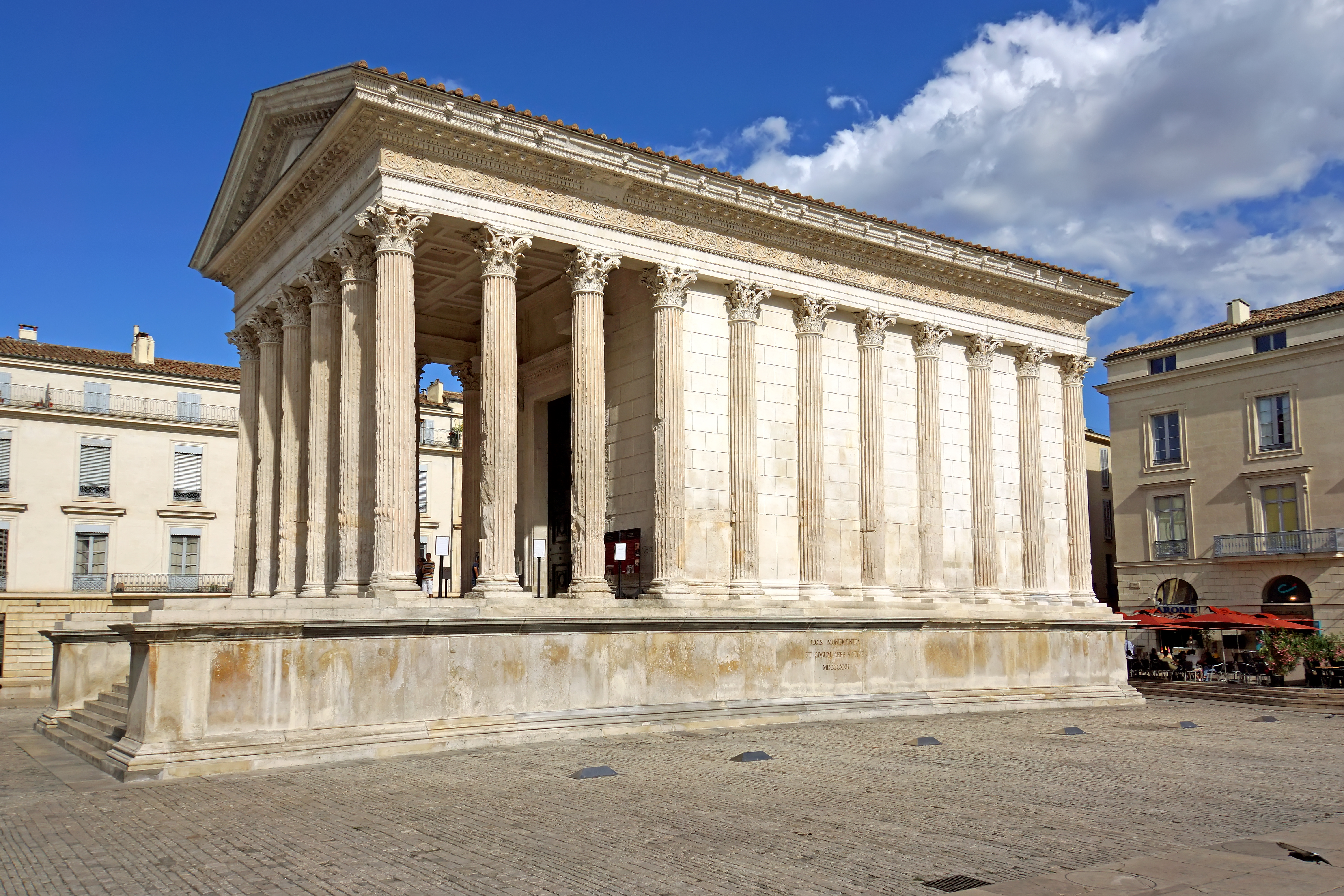 PLEASE, NO invitations or self promotions, THEY WILL BE DELETED. My photos are FREE to use, just give me credit and it would be nice if you let me know, thanks. I did not go inside all all that is there is a movie to be seen..... The Maison Carrée (Square House) stands in the centre of town. Dating from the 1st century AD, it was dedicated to Caius and Lucius Caesar, adopted grandsons of Emperor Augustus. It has been used for various functions since the 11th century. It served as a consulate, a stable, apartments, and a church, as well as archives and a museum. Tourist information describes it as "the only fully preserved temple of the ancient world."